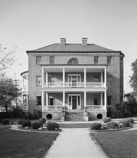 Joseph Manigault House, 350 Meeting Street & Ashmead Place, Charleston, Charleston County, SC (cropped)